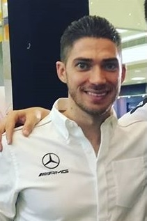 mortara